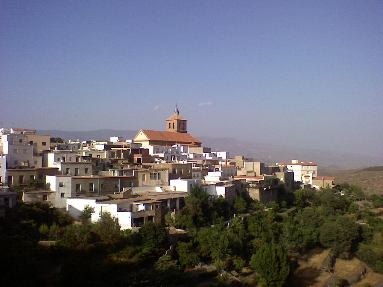 Photo of Abrucena